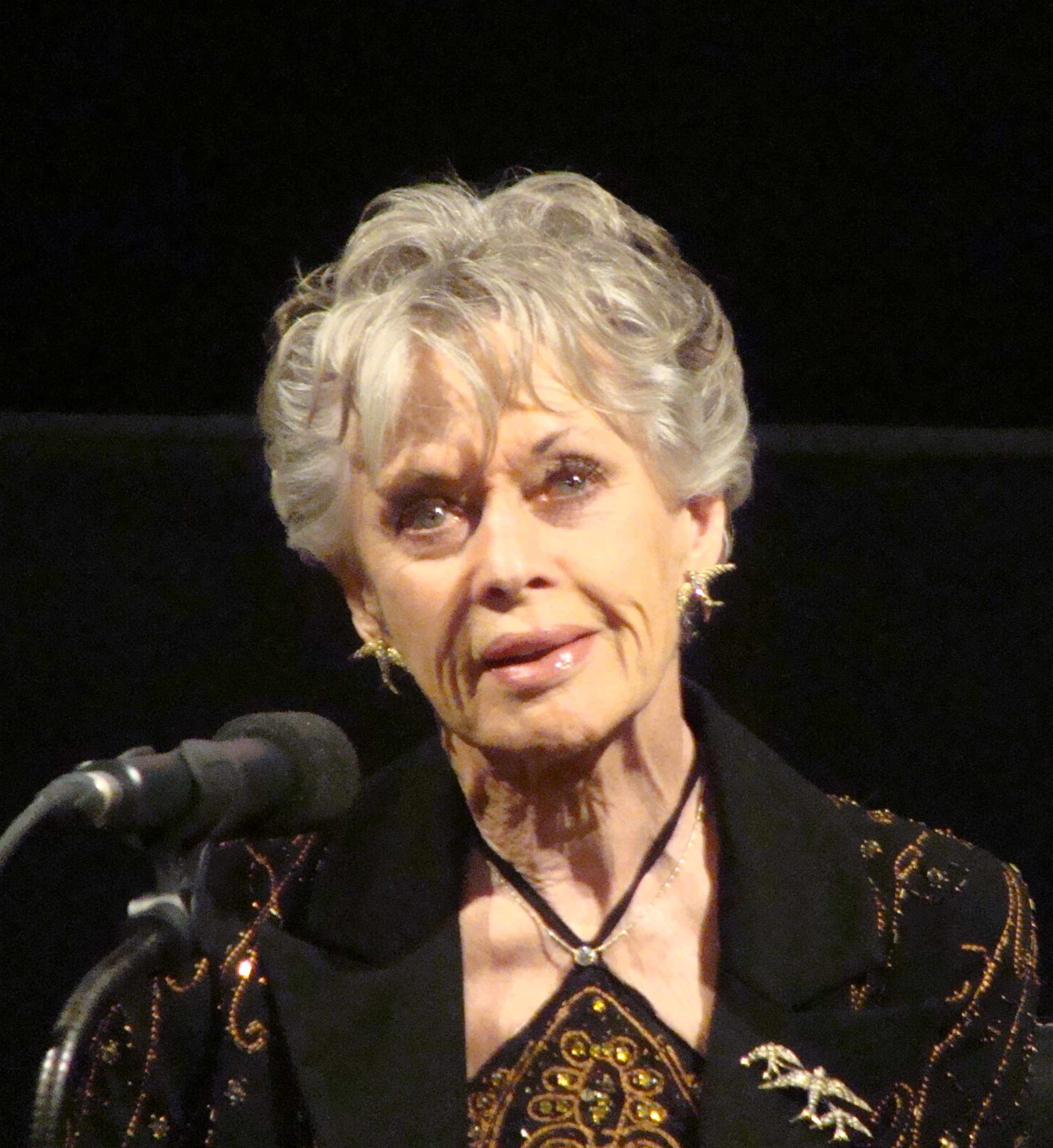 Tippi Hedren at the Filmmuseum screening of "The Birds". Vienna, Austria, 30.10.2015. "The Birds" was shown as part of the "Animals" retrospective organized by the Filmmuseum together with Viennale.